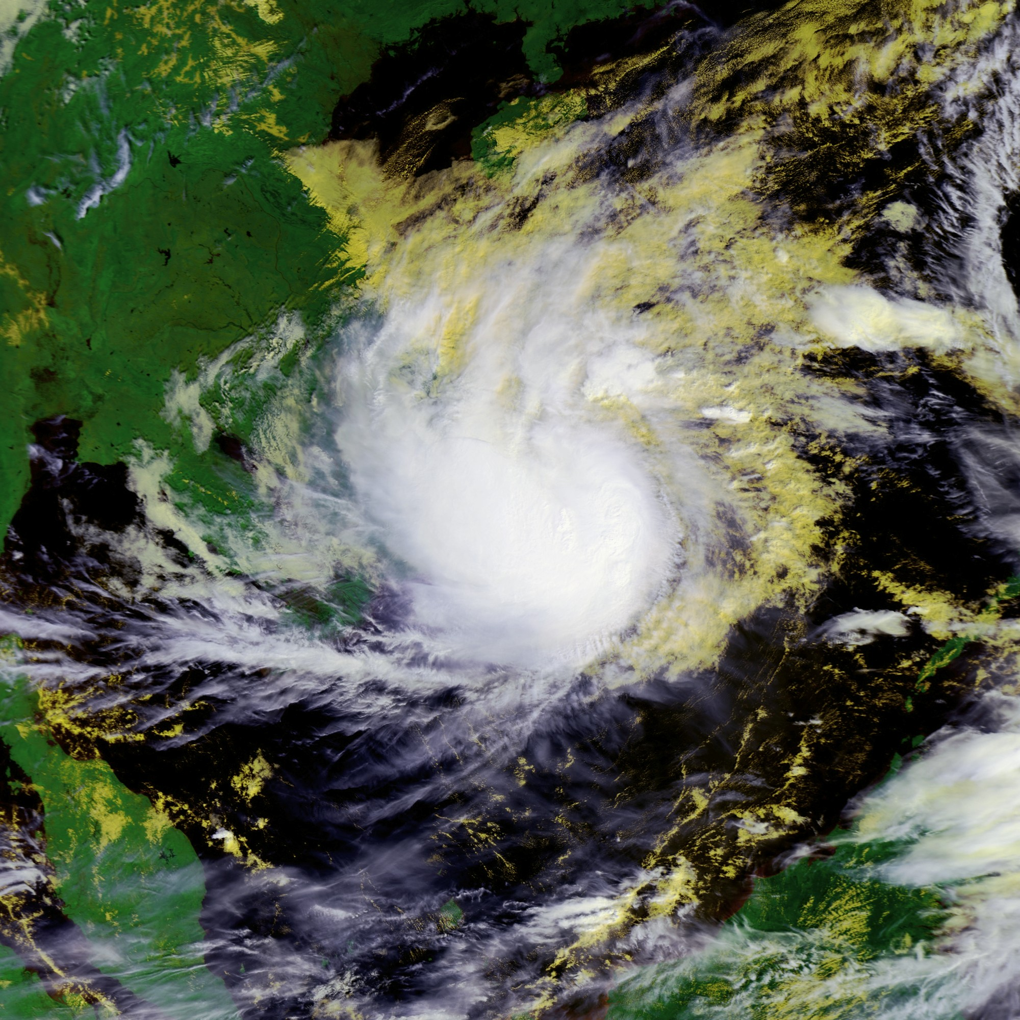 Typhoon Hagibis on November 23 at approximately 0213 UTC. This image was produced from data from MetOp-2/A, provided by NOAA.